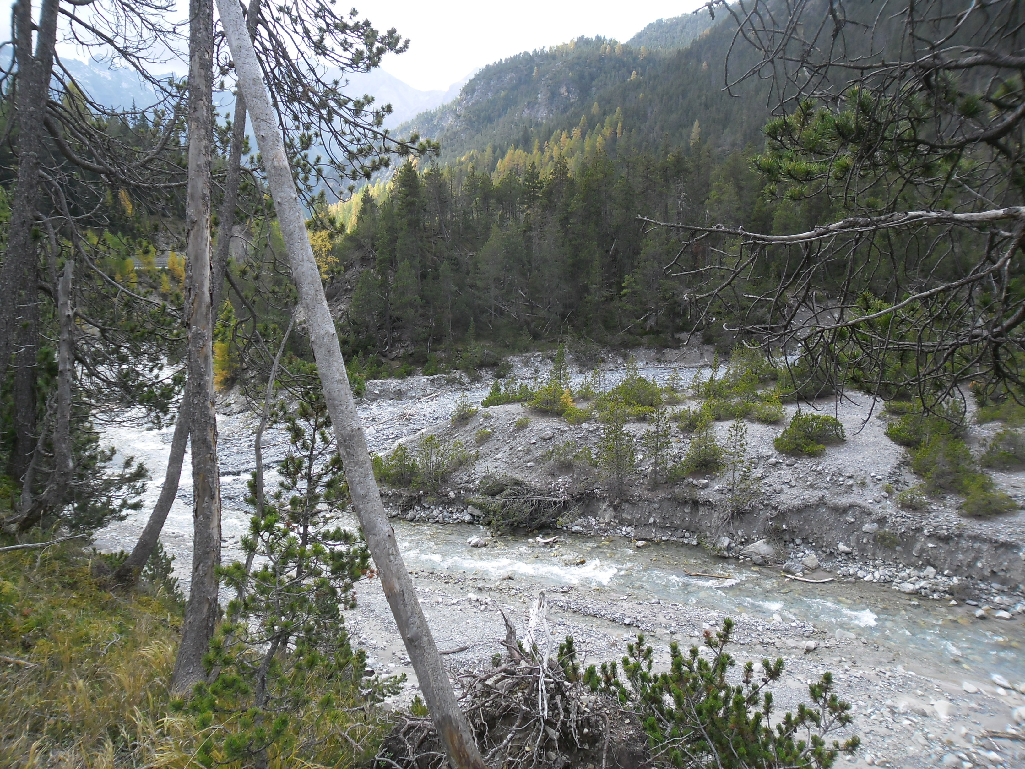 Parc Naziunal Svizzer